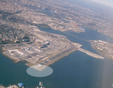 An overview of LaGuardia airport highlighting crash site of USAir Flight 405 in the white circle.